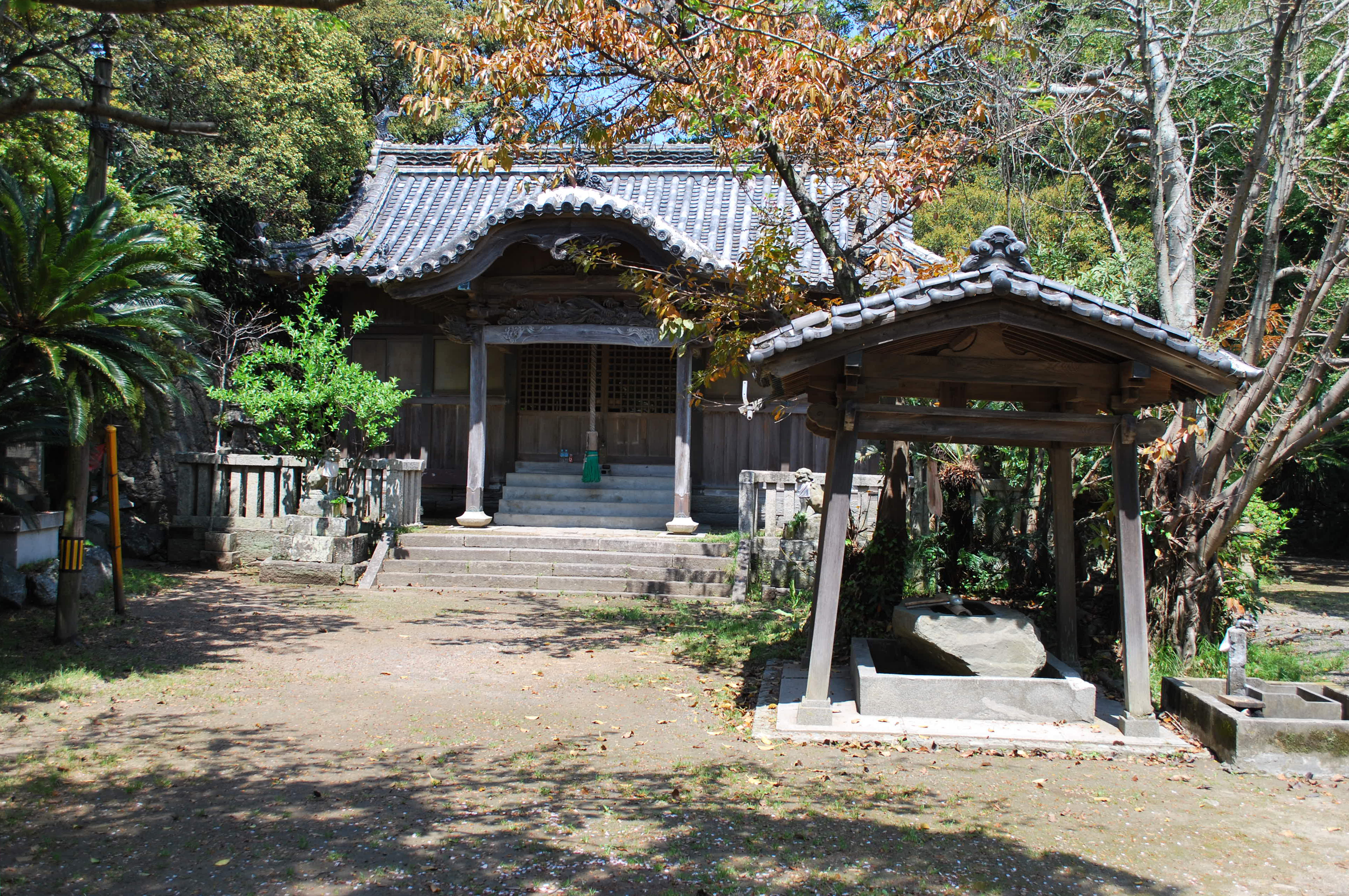 Kanaiso-benzaiten temple